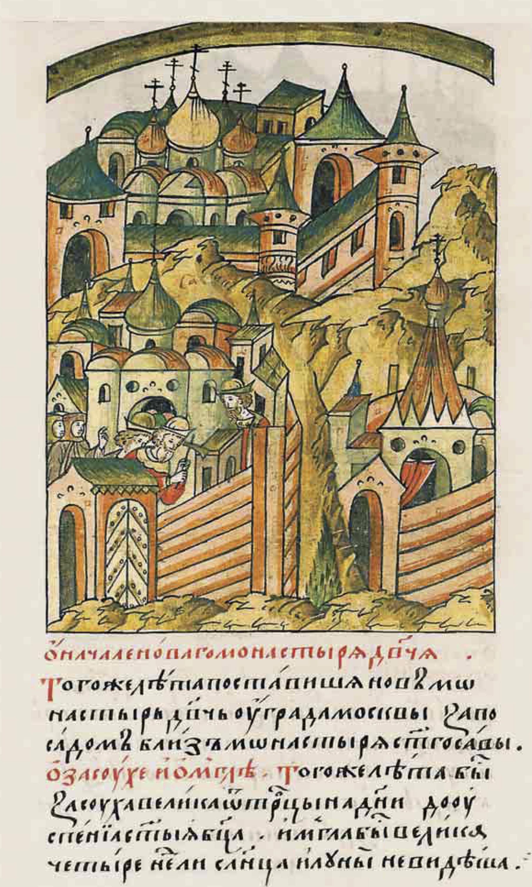 Building of Novodevichy Convent. The second half of 16 century.